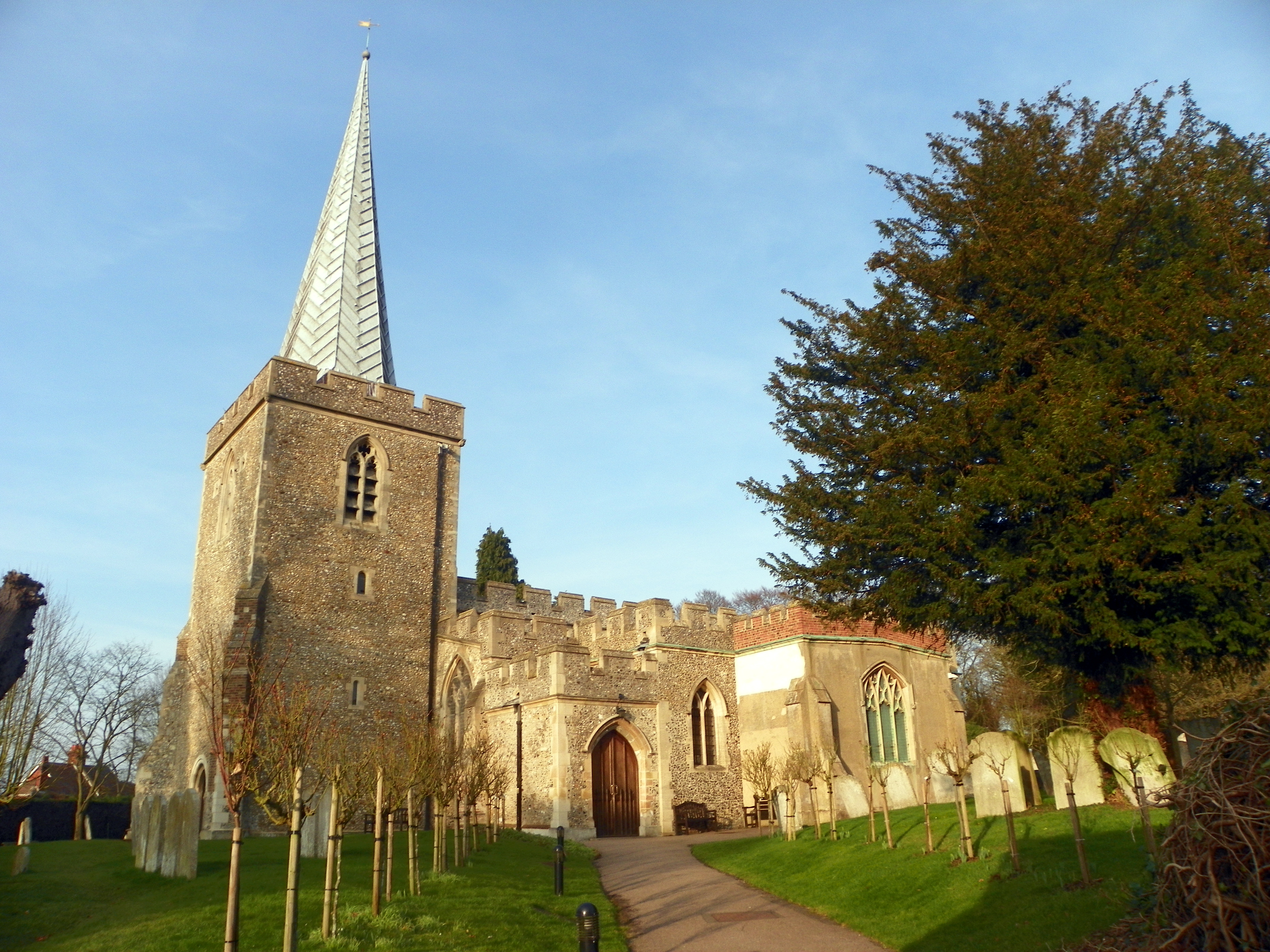 St Nicholas' Church, Stevenage. One of two Grade I listed buildings in Stevenage, and the oldest building in Stevenage. 18 February 2013.